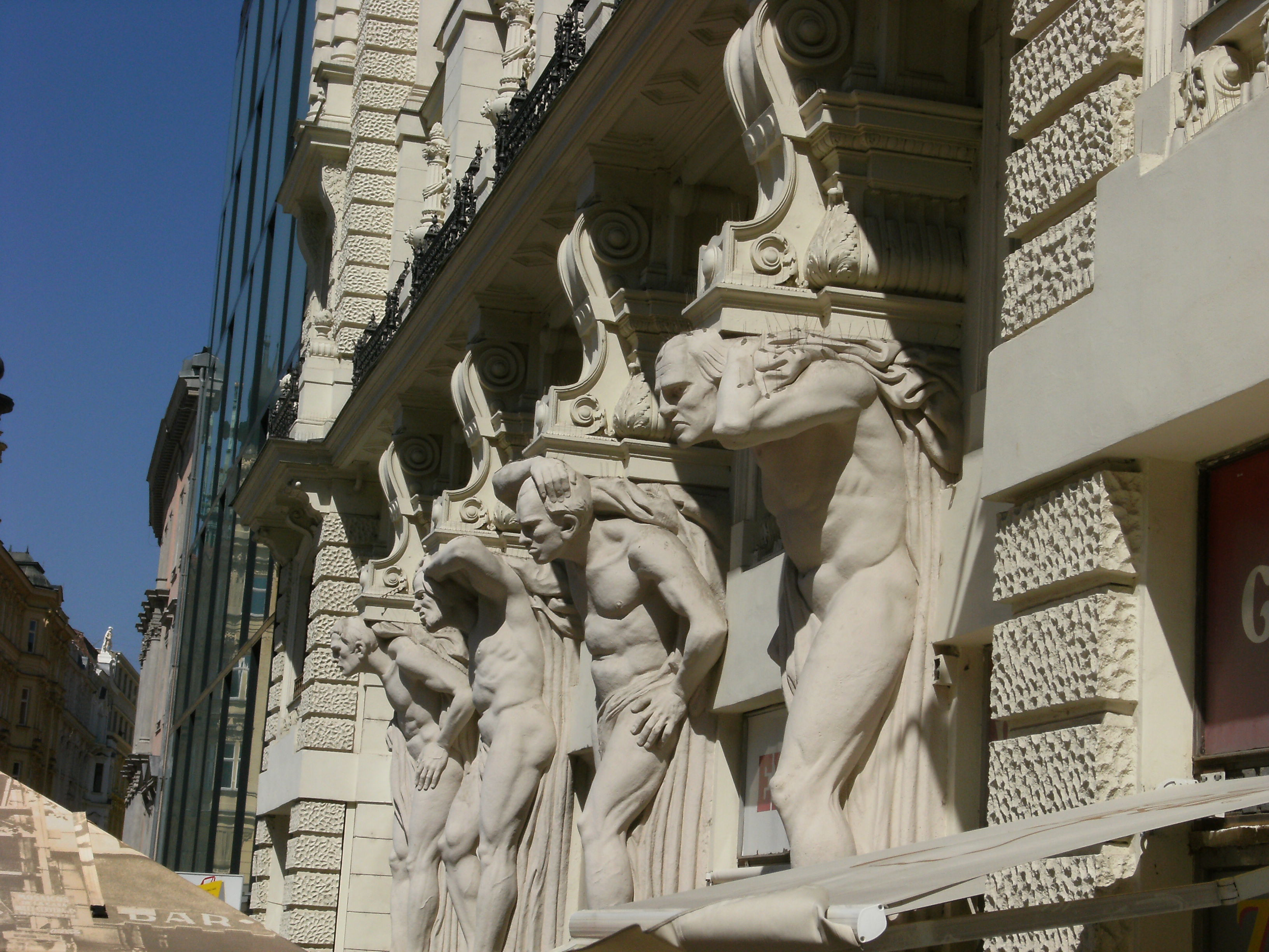 Gable of building in Brno.